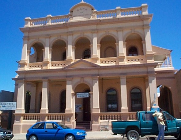 Taken by Michael Gardner 2002. The Library is now situated a couple of blocks up the Street. Note that the building was originally a branch of the Bank of New South Wales.